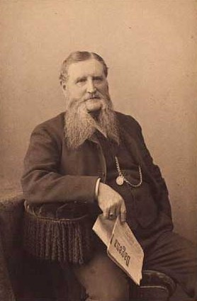 Adam Carl Vilhelm Knuth (1821-1897), Danish Count and estate owner